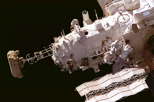 Close-up of the airlock on Kvant-2. Photo taken from STS-81.